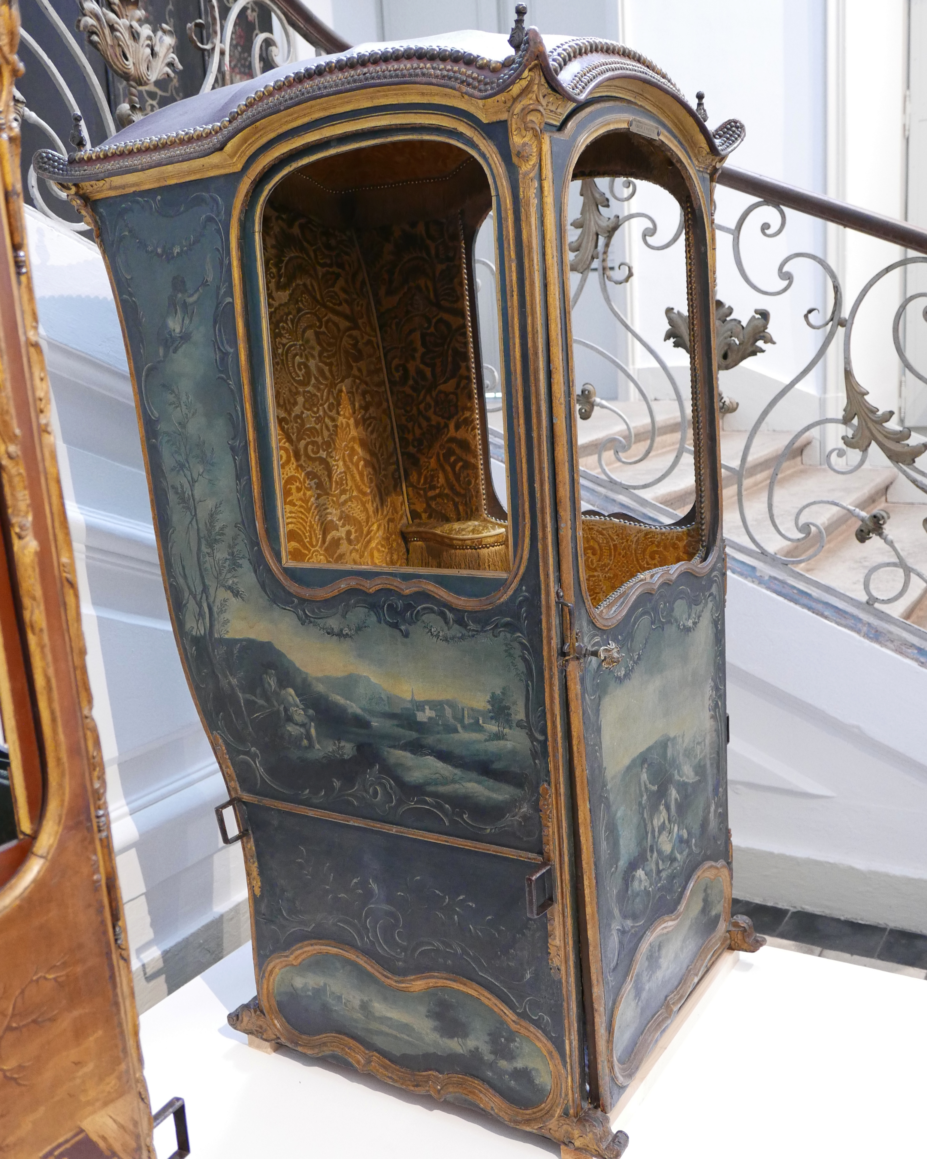 Nîmes (Gard, Languedoc, France), on the Place aux Herbes, in the former episcopal palace, the Museum of Old Nîmes, ethnographic museum or Popular Arts and Traditions of Nîmes.